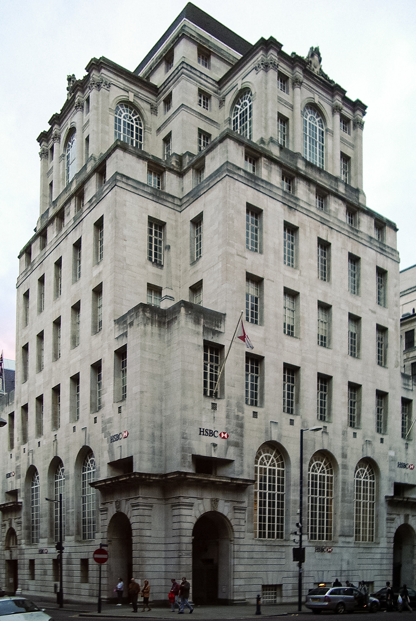 Midland Bank, King Street, Manchester, photograph taken by Lmno on 9 Oct 2004 Category:Images of Manchester